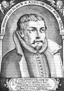 Arngrimur Jonsson the learned, Icelandic writer